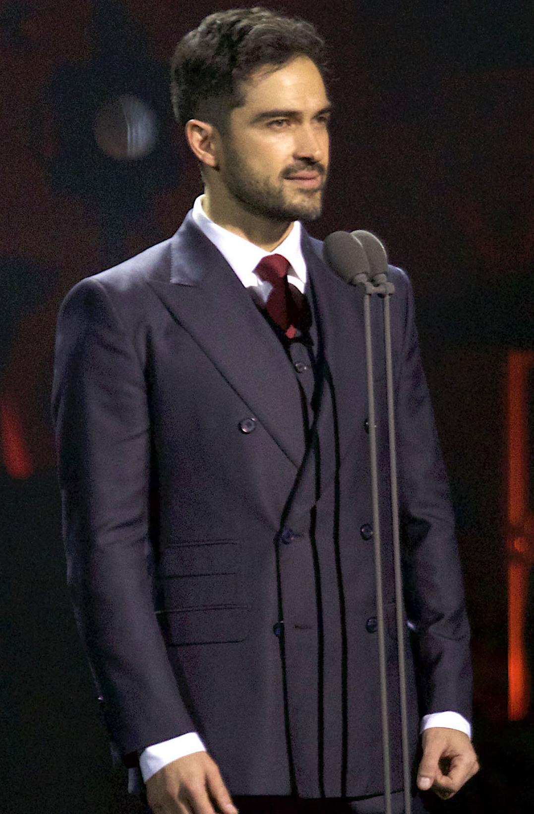 Alfonso Herrera at the 2018 Fénix Award.